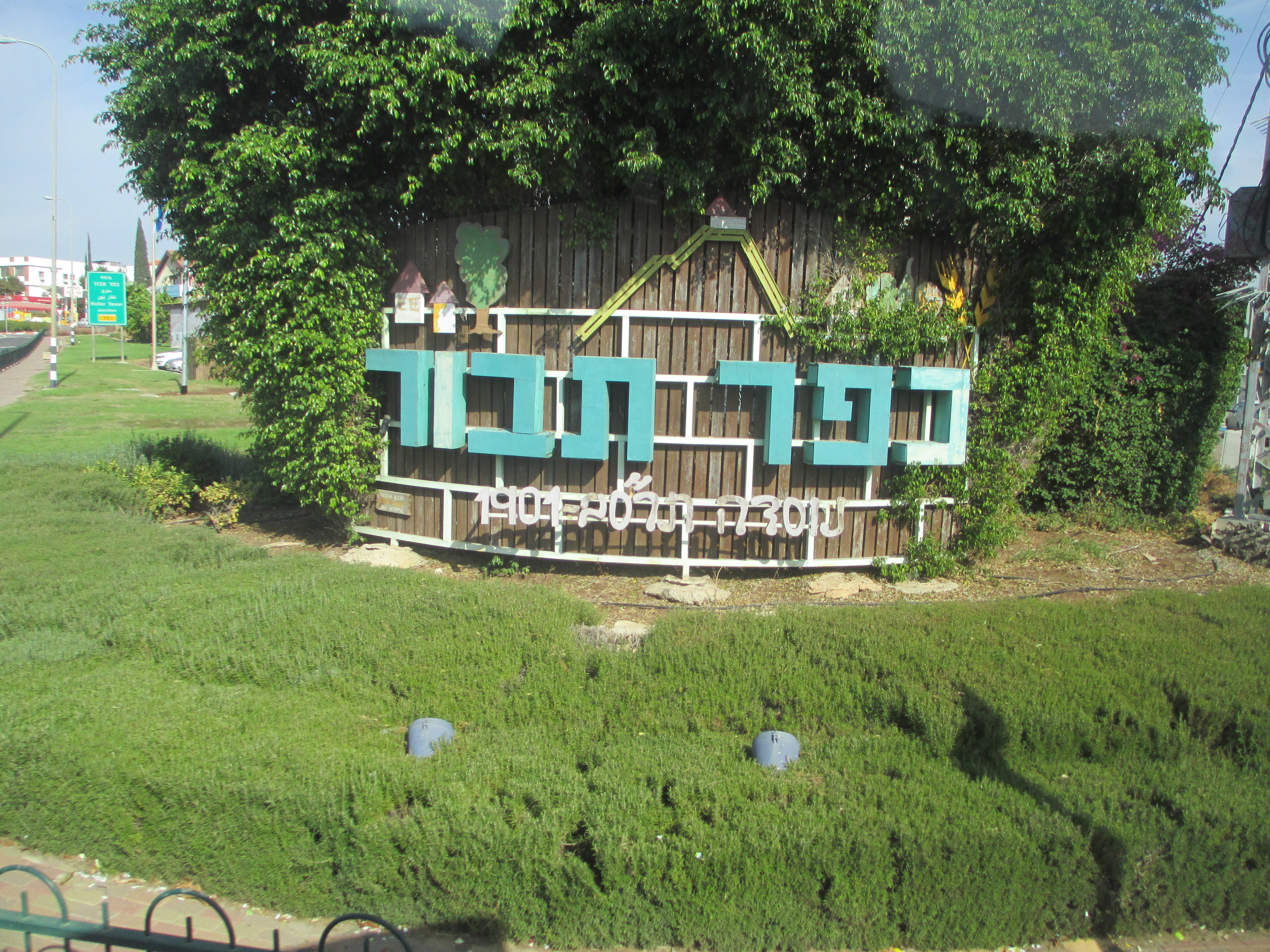 File:Kalman Magen St. in Tel Aviv.JPG